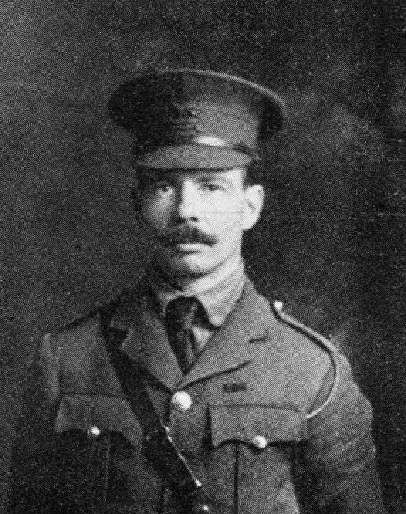 10 Battalion, South Wales Borderers Lt Col Wilkinson was educated at Wellington School. He received his commission to the West Yorkshire Regiment in 1900 and served in the Second Anglo-Boer War. In 1910, he achieved the rank of captain. As lieutenant colonel, he transferred to the Welsh Regiment and subsequently to the South Wales Borderers. Lt Col Wilkinson was posted to the Western Front in 1915. He was Mentioned in Despatches and awarded the Distinguished Service Order in January 1916. Lt Col Wilkinson was killed in action on 7 July 1916 during the Battle of the Somme. He is commemorated on the Thiepval Memorial. Faces of the First World War Find out more about this First World War Centenary project at This image is from IWM Collections.